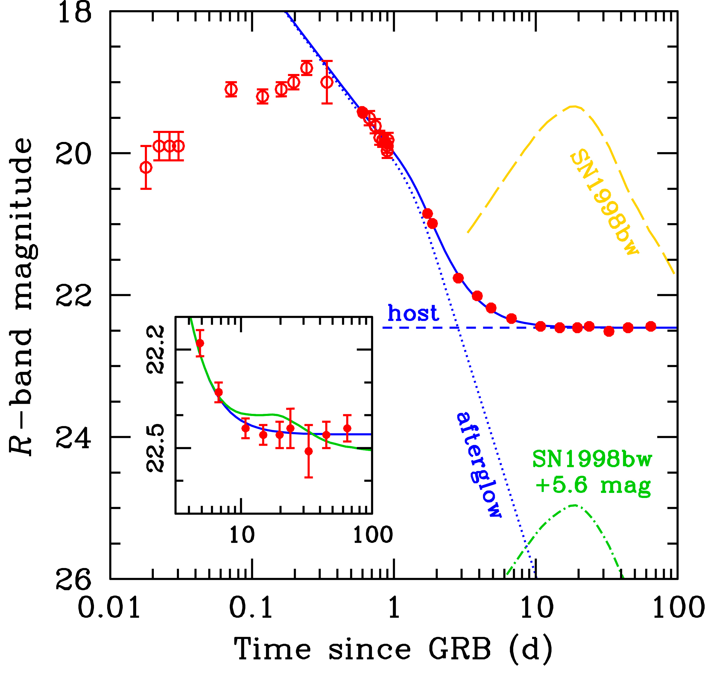 Light curve of the optical emission from GRB 060614. The circles represent the observed data. At the expected time (10-20 days after the GRB), there is no sign of rebrightening due to a supernova. The light curve after ~0.3 day (blue solid line) has been decomposed in the sum of two components: the afterglow (blue dotted line) and the host galaxy (blue short-dashed lines). There is no need for a supernova component: the green dot-dashed line is the brightest supernova allowed by our data. This is very faint, and for comparison the yellow long-dashed line shows the light curves of SN 1998bw, the proto-typical SN associated with a GRB. The inset displays a zoom around the maximum of the putative SN, with the green solid line showing the contribution from the brightest supernova allowed by our data.